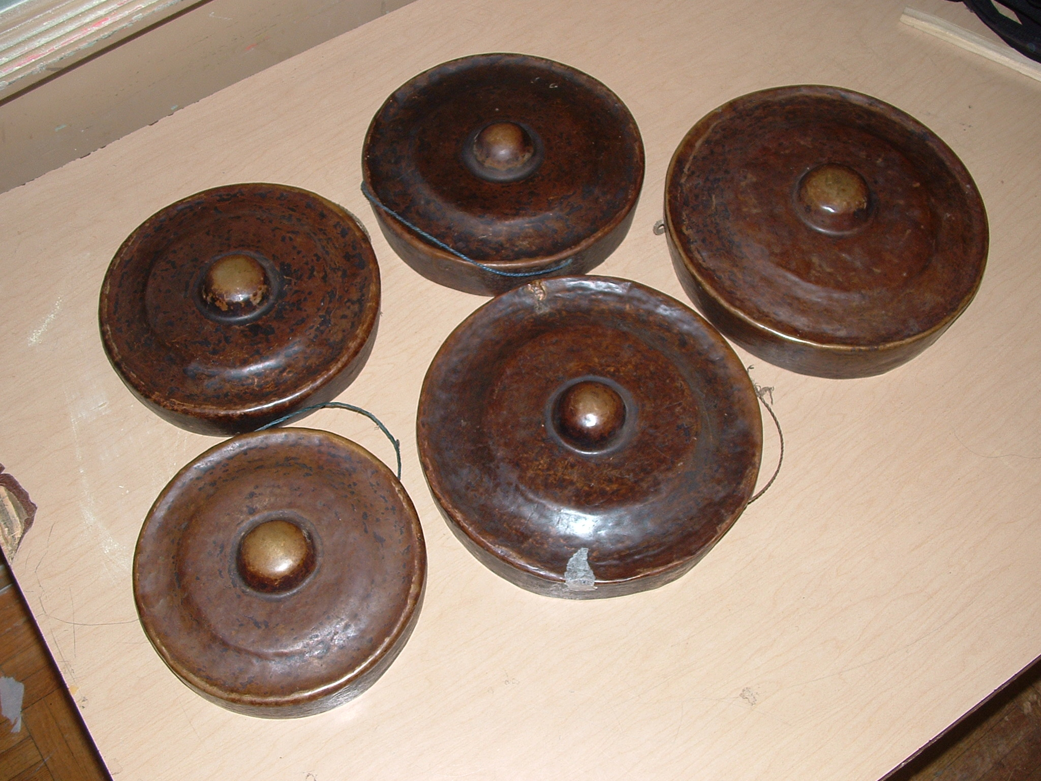 The five Philippine vertically held gongs known as the karatung used in the Tiruray agung ensemble.